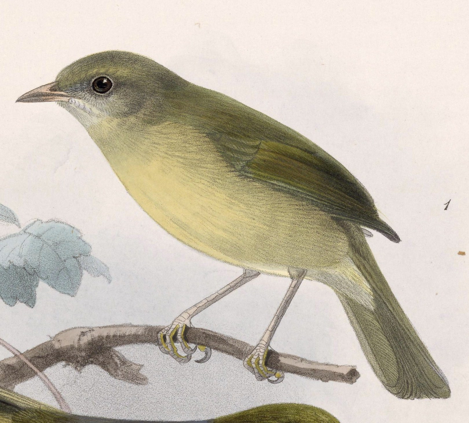 « Hylophilus viridiflavus » = Hylophilus flavipes viridiflavus (Subspecies of Scrub Greenlet)